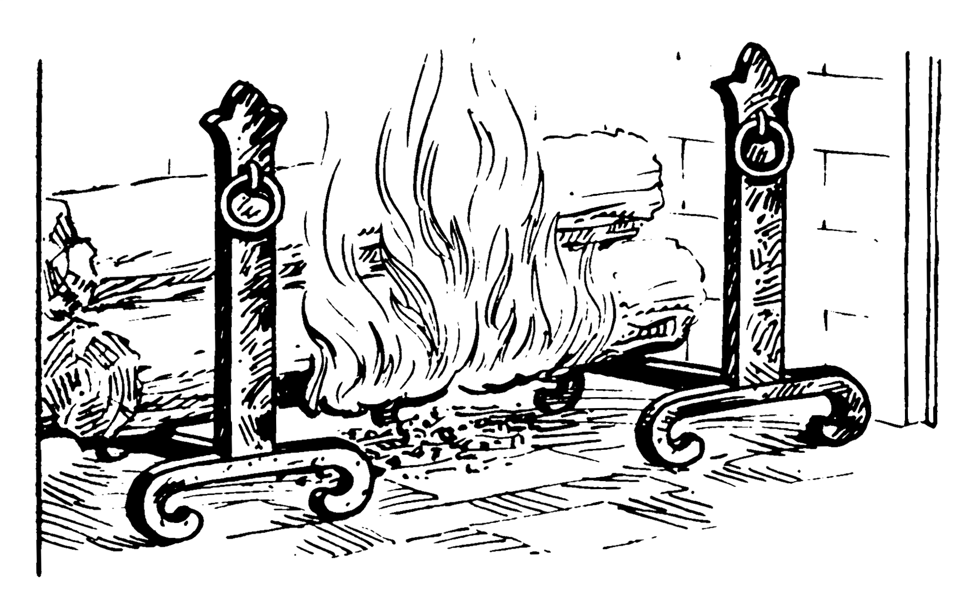 Line art drawing of andirons